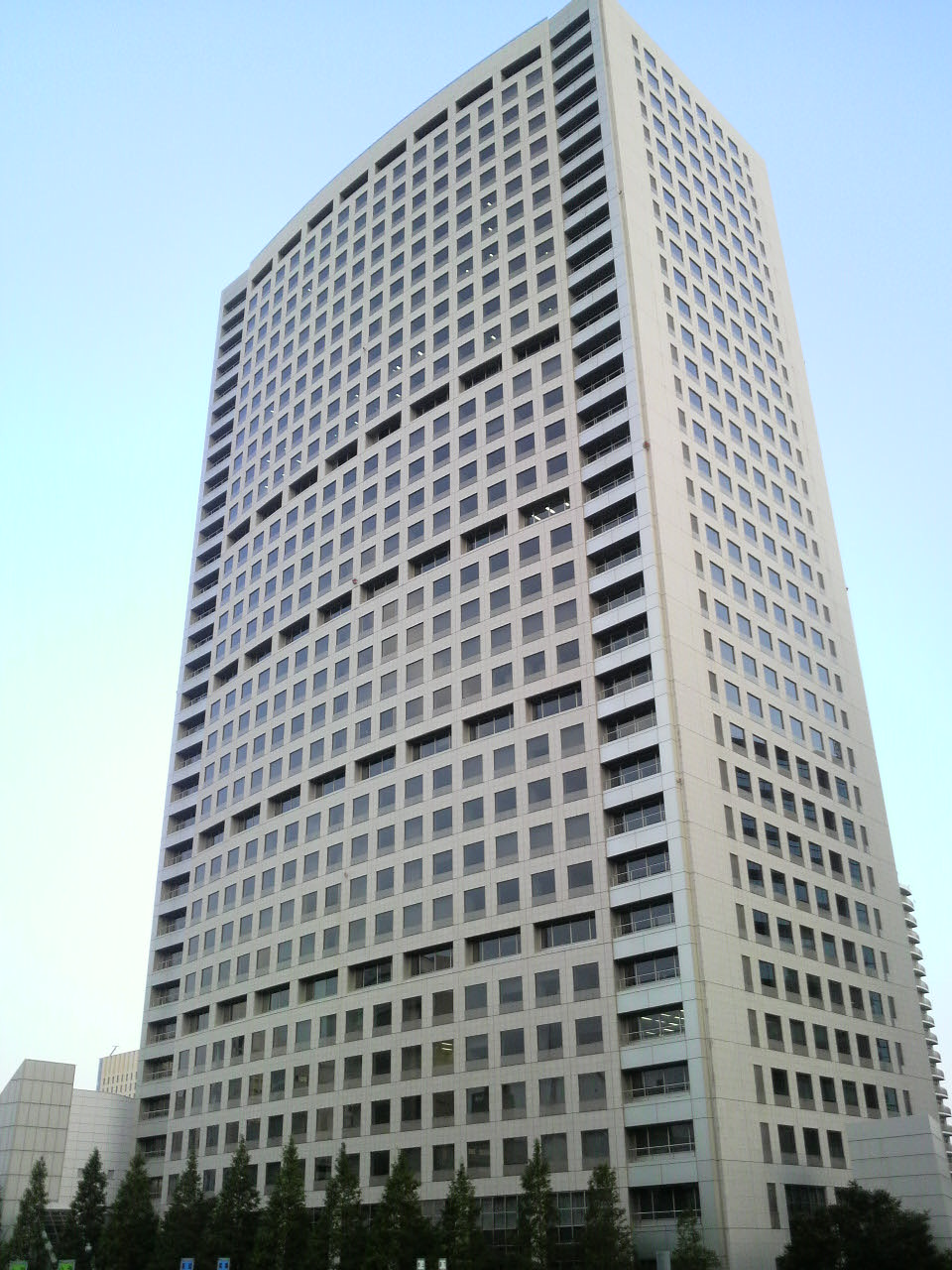 guranparktower